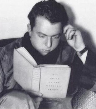 Publicity photo of Lewis Milestone